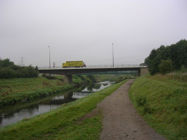 River Mersey, Urmston. The River Mersey is crossed here by two bridges. The nearer bridge carries the A6144(M)(a spur off the M60) the more distant carries the Trans Pennine Trail. SJ77369349.